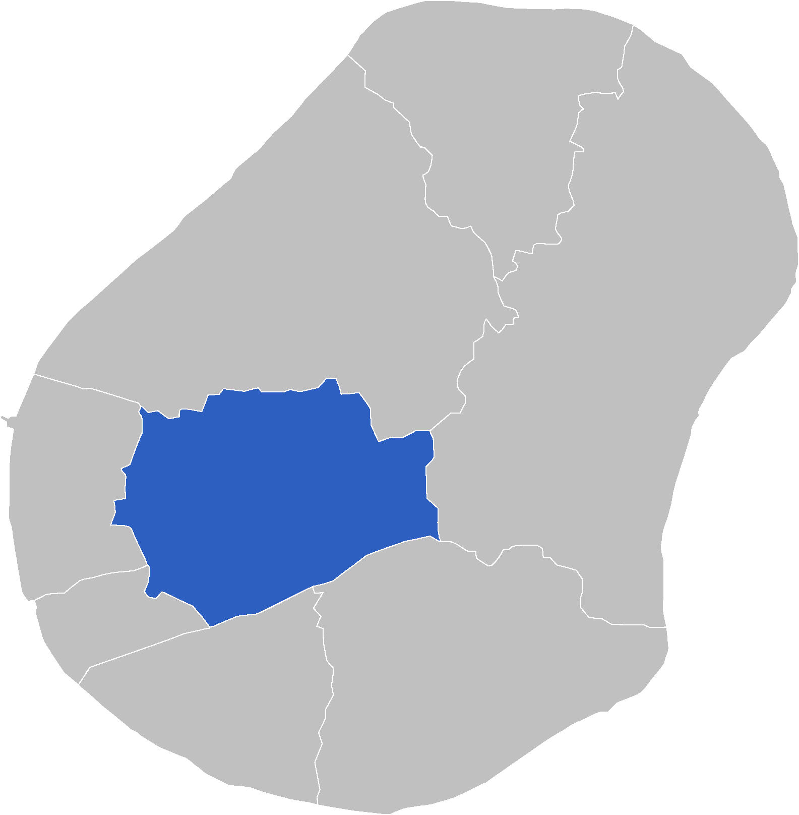 Location map of Buada constituency, Nauru